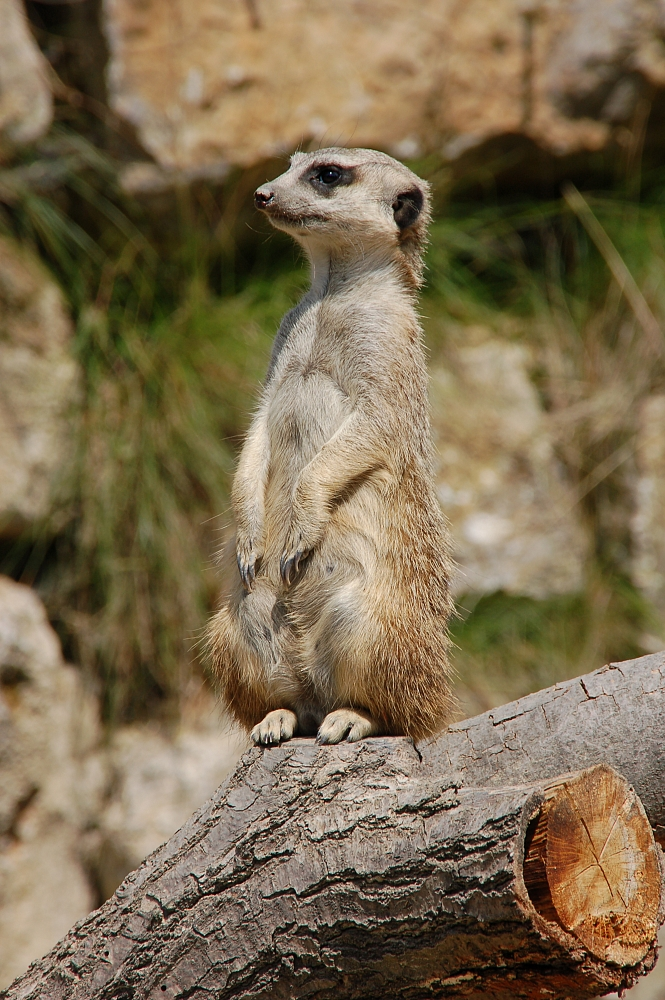 Suricata suricatta, Zoological Garden Kronberg, Germany